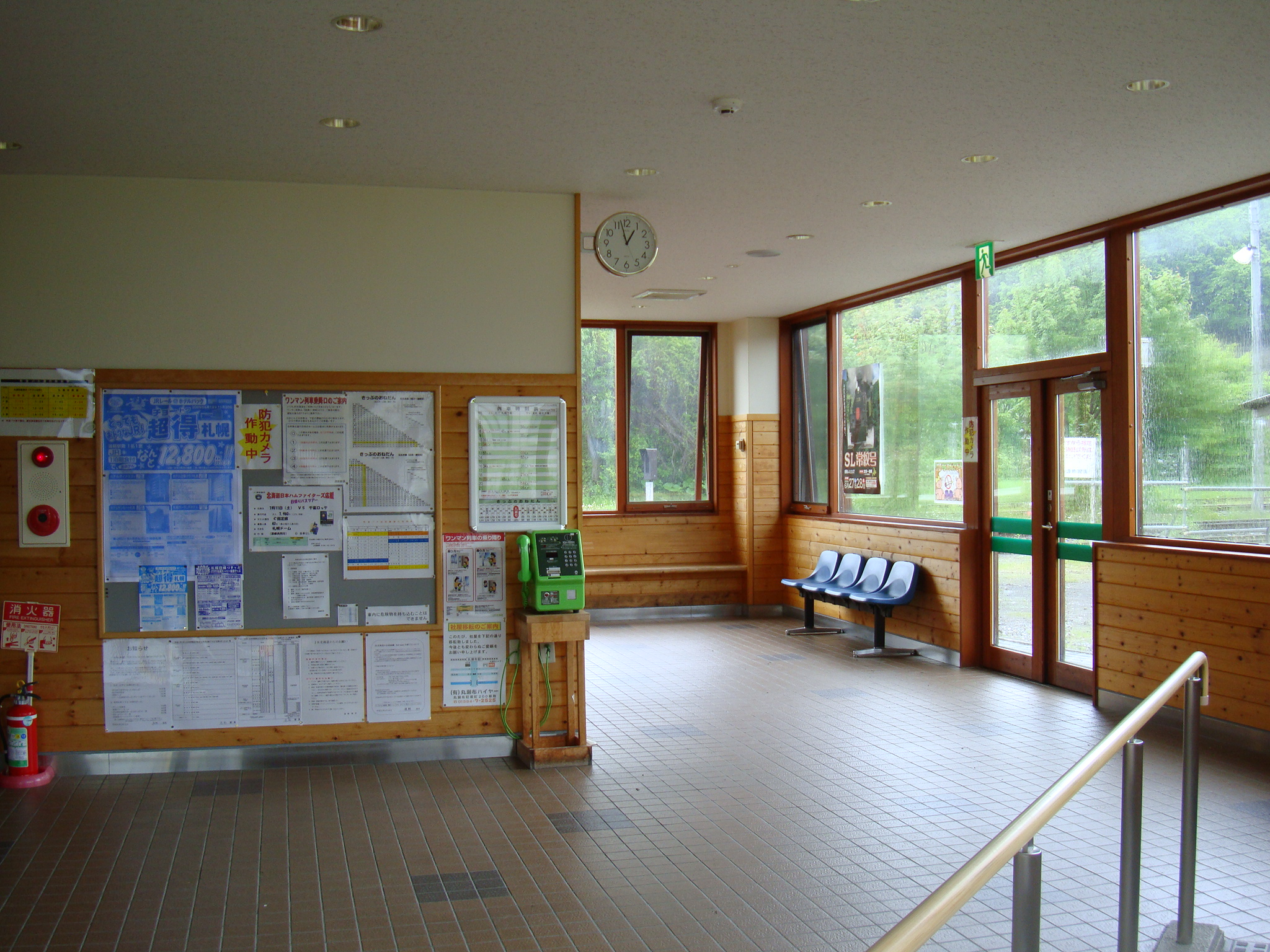 Maruseppu Station